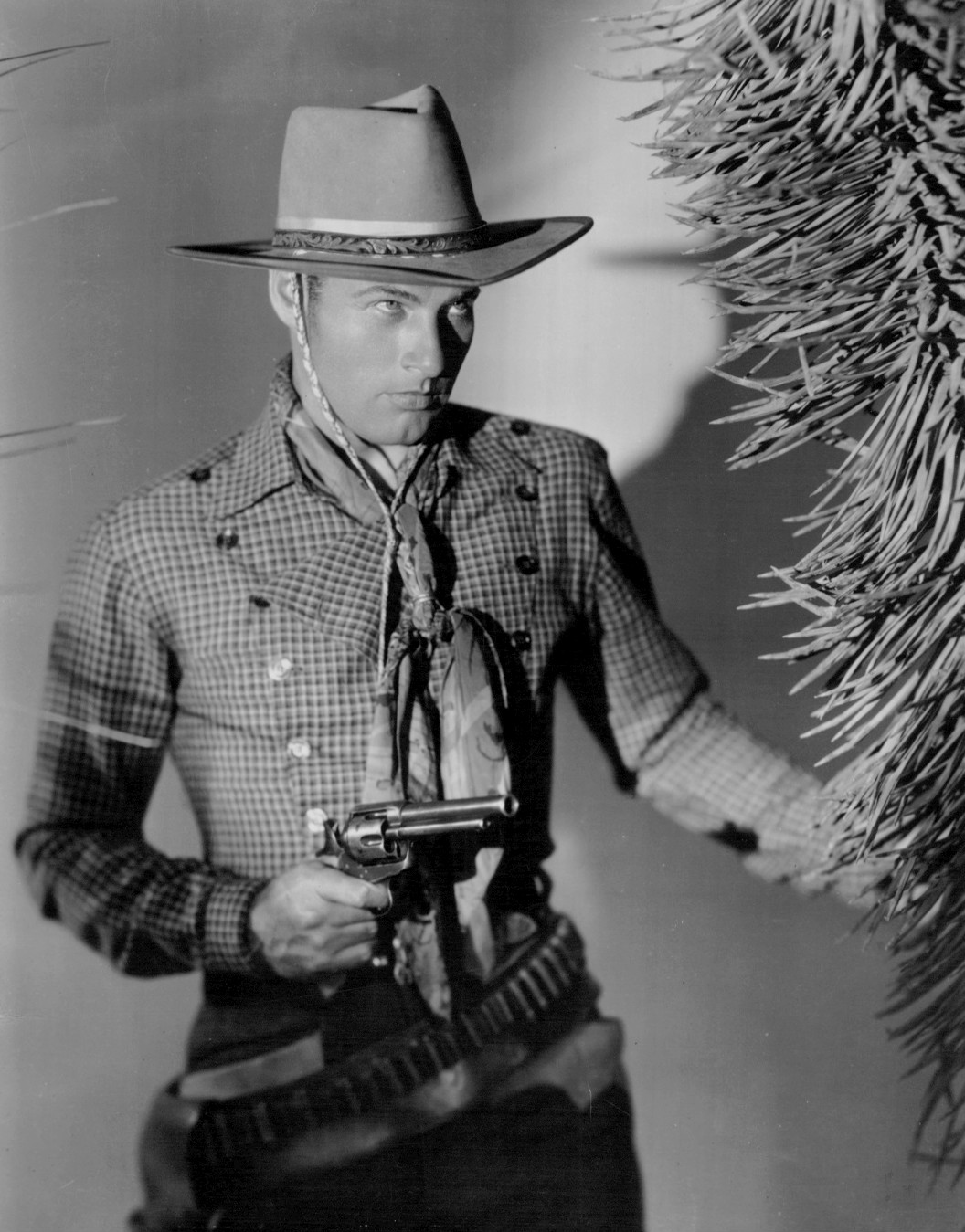 Photo of Richard Arlen from the 1930 film The Santa Fe Trail. The item has no copyright markings on it as can be seen in the links above.